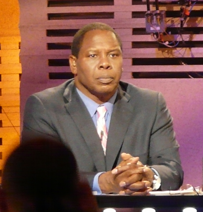 Tom Jackson at the 2010 NFL Draft. This file has been extracted from another file: 2010 NFL Draft ESPN set.jpg